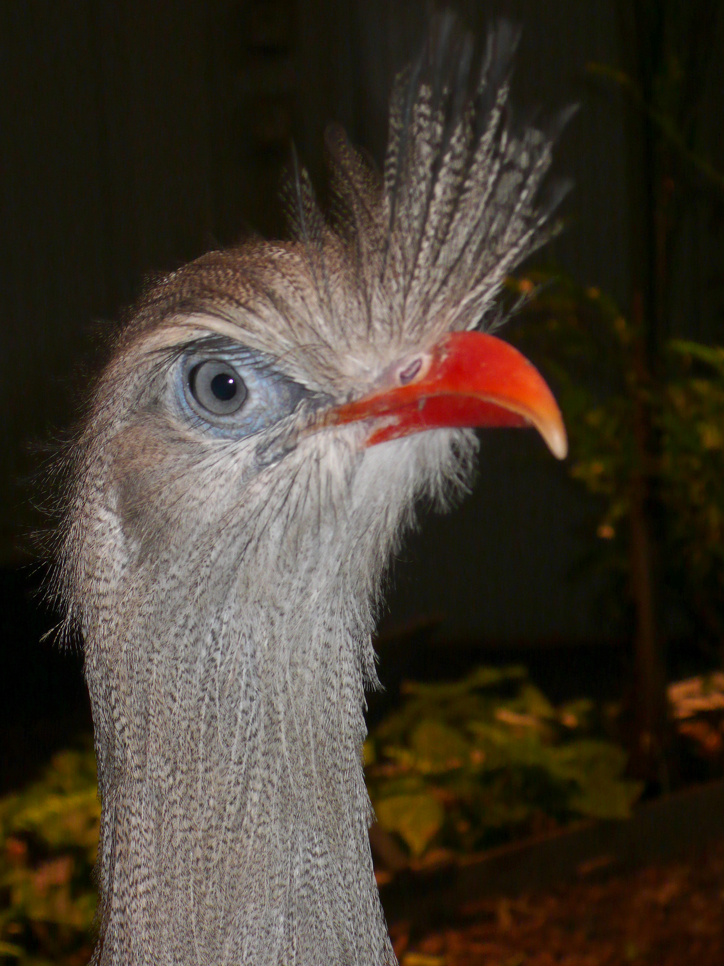 Red-legged seriema (Cariama cristata)